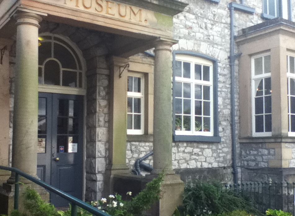 Front view of Kendal museum, in Kendal, Cumbria, Northern England.